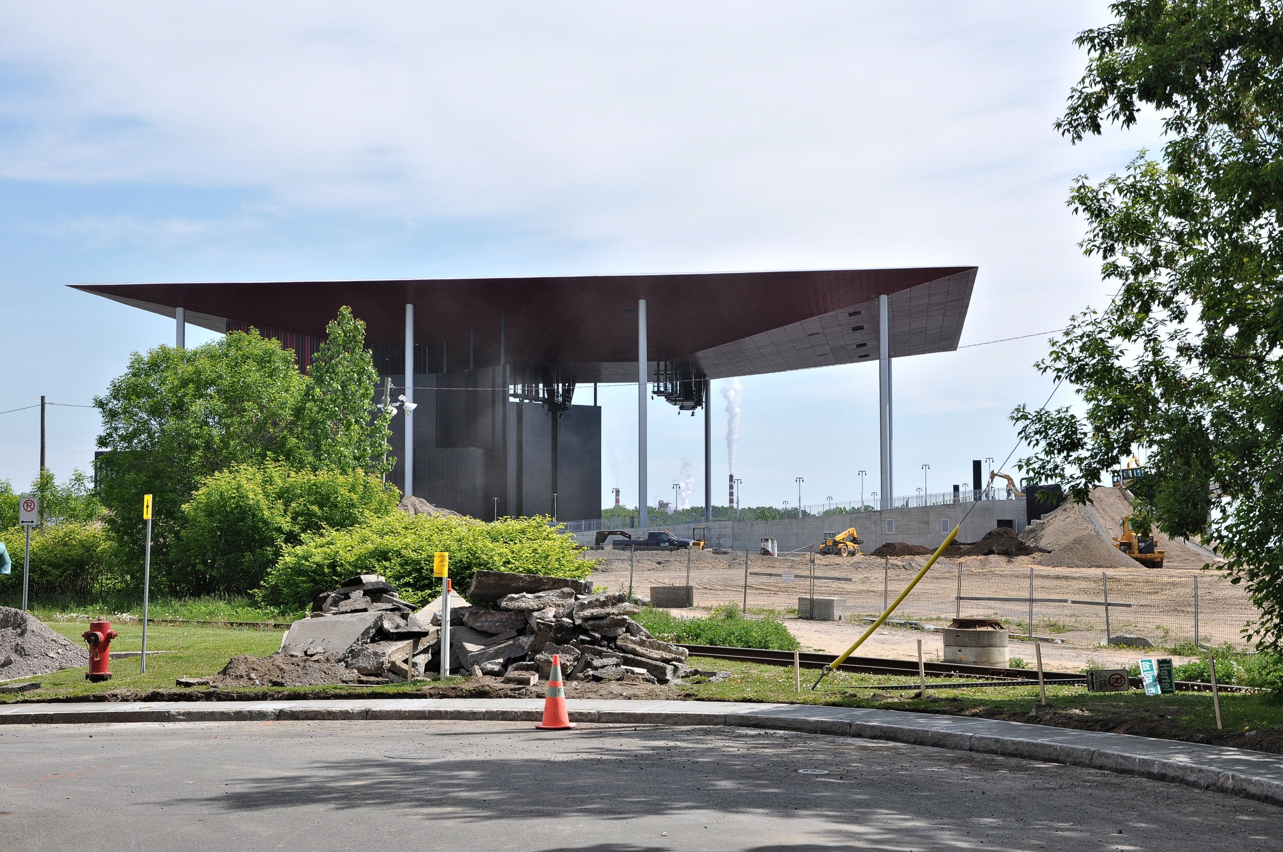 When we saw it, on 4 June 2015, this building was in the final stages of its construction. It was completed in mid-July, some six weeks after we saw it. It has a total area of 14,000 m 2 (150,700 ft 2) with 3500 seats and 5500 standing room on a grassy esplanade for a total of 9000 spectators.